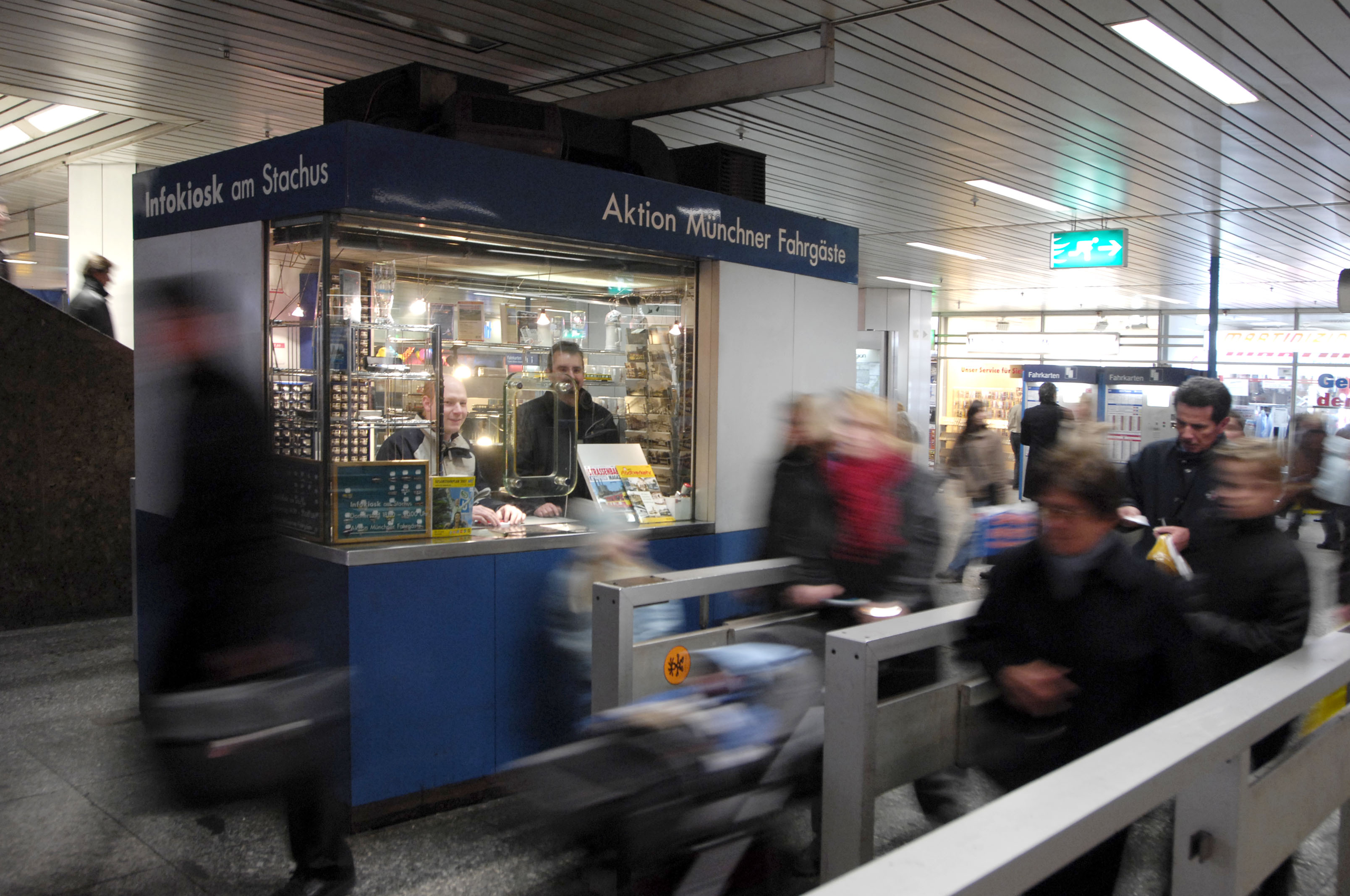 Infokiosk am Stachus